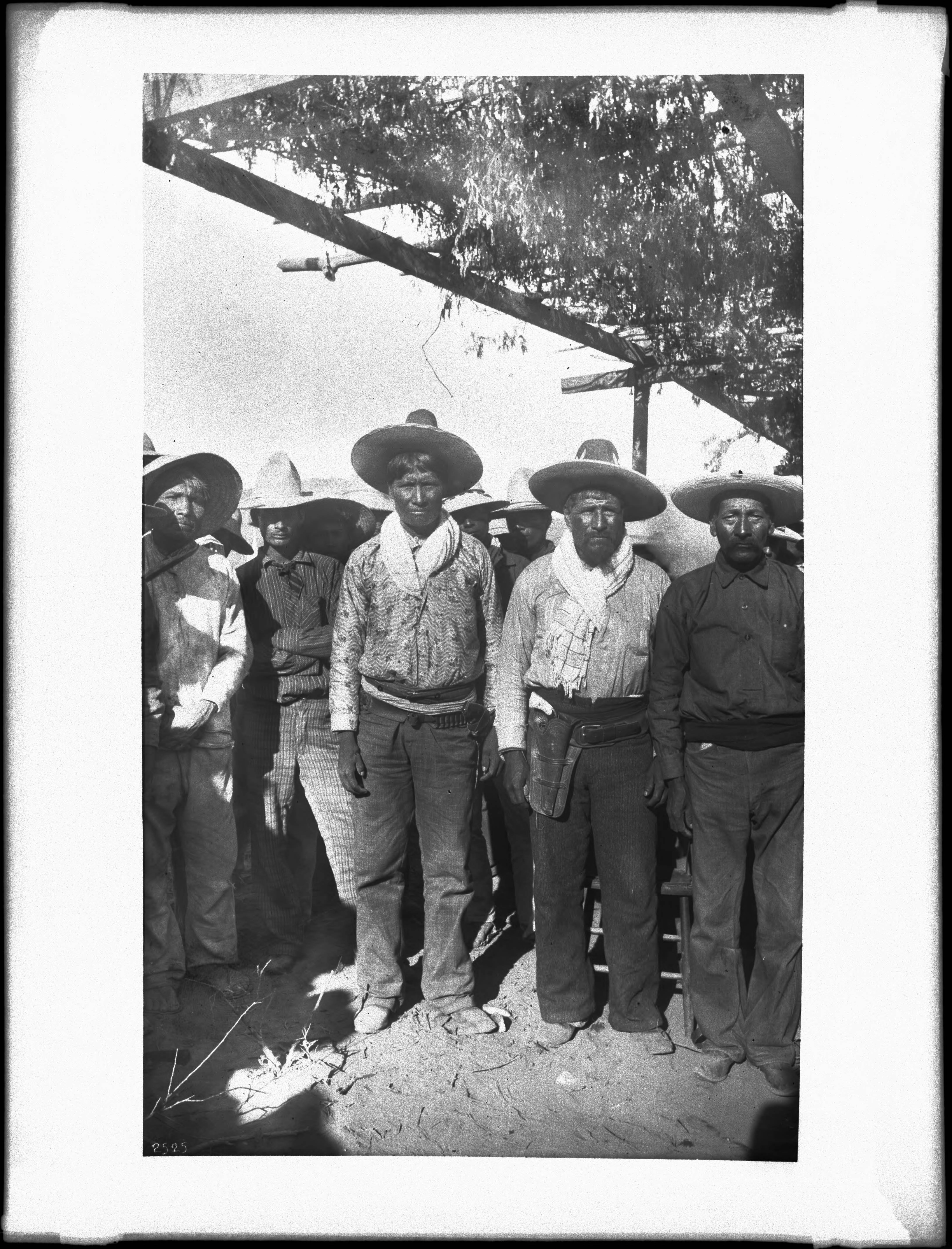 A group of Yaqui Indians, including Chief Talaviate, at the surrender and signing of peace treaty at Ortiz, Mexico, ca.1910 Photograph of a group of Yaqui Indians, including Chief Talaviate[?], at the surrender and signing of peace treaty at Ortiz, Mexico, ca.1910. Three men stand in the foreground while other stand grouped behind them under a thatched canopy. They all wear hats. Two of the men in front wear scarves around their necks. The treaty was signed by Colonel Paynard and Chief Talaviate. Call number: CHS-2525 Filename: CHS-2525 Subject (file heading): Mexico -- Indians -- Yaquis Part of collection: California Historical Society Collection, 1860-1960 Type: images Part of subcollection: Title Insurance and Trust, and C.C. Pierce Photography Collection, 1860-1960 Repository name: USC Libraries Special Collections Format: glass plate negatives Microfiche number: 1-224- Archival file: chs_Volume92/CHS-2525.tiff Repository address: Doheny Memorial Library, Los Angeles, CA 90089-0189 Geographic subject (country): Mexico Format (aacr2): 2 photographs : glass photonegative, photoprint, b&w ; 21 x 13 cm., 22 x 17 cm. Rights: Digitally reproduced by the USC Digital Library; From the California Historical Society Collection at the University of Southern California Project: USC Accession number: 2525 Repository Contributing entity: California Historical Society Date created: circa 1910 Publisher (of the digital version): University of Southern California. Libraries Format (aat): photographic prints; photographs Legacy record ID: chs-m15473; USC-1-1-1-14132 Access conditions: Send requests to address or e-mail given. Phone (213) 821-2366; fax (213) 740-2343. Coverage date: circa 1910 Subject (lcsh): Indians of North America; Yaqui Indians